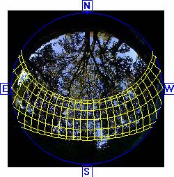 Creative Commons attribution "photo by S.B. Weiss". Upward looking hemispherical (fisheye) photograph from a closed canopy reach of San Francisquito Creek (San Francisco Peninsula, California).